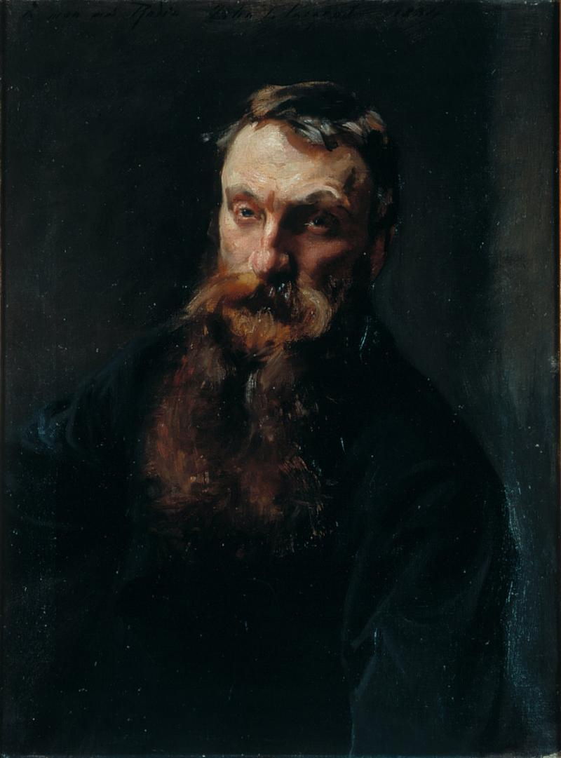 Auguste Rodin 1884 Musée Rodin, Paris Oil on canvas 28 3/4 x 20 7/8 in. signed "A mon ami Rodin, John Sargent 1884" On the reverse: marque d'exposition à la Kunsthalle de Bâle, n° 1247. Jpg: ebay /